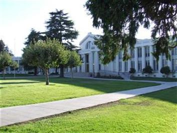 The front of Oakland Technical High School, facing southwest